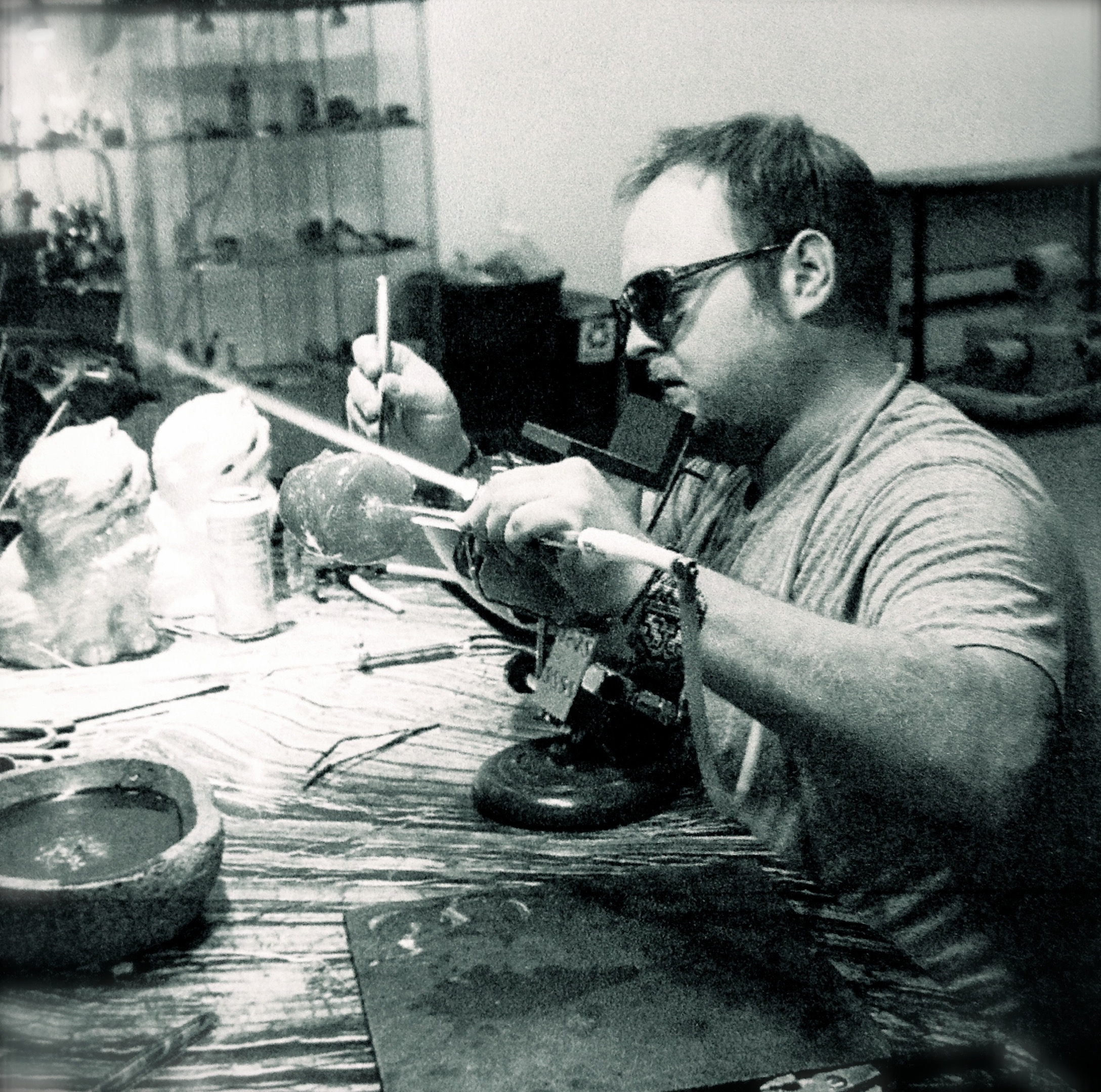 Joe Peters working on the Torch - October 2014